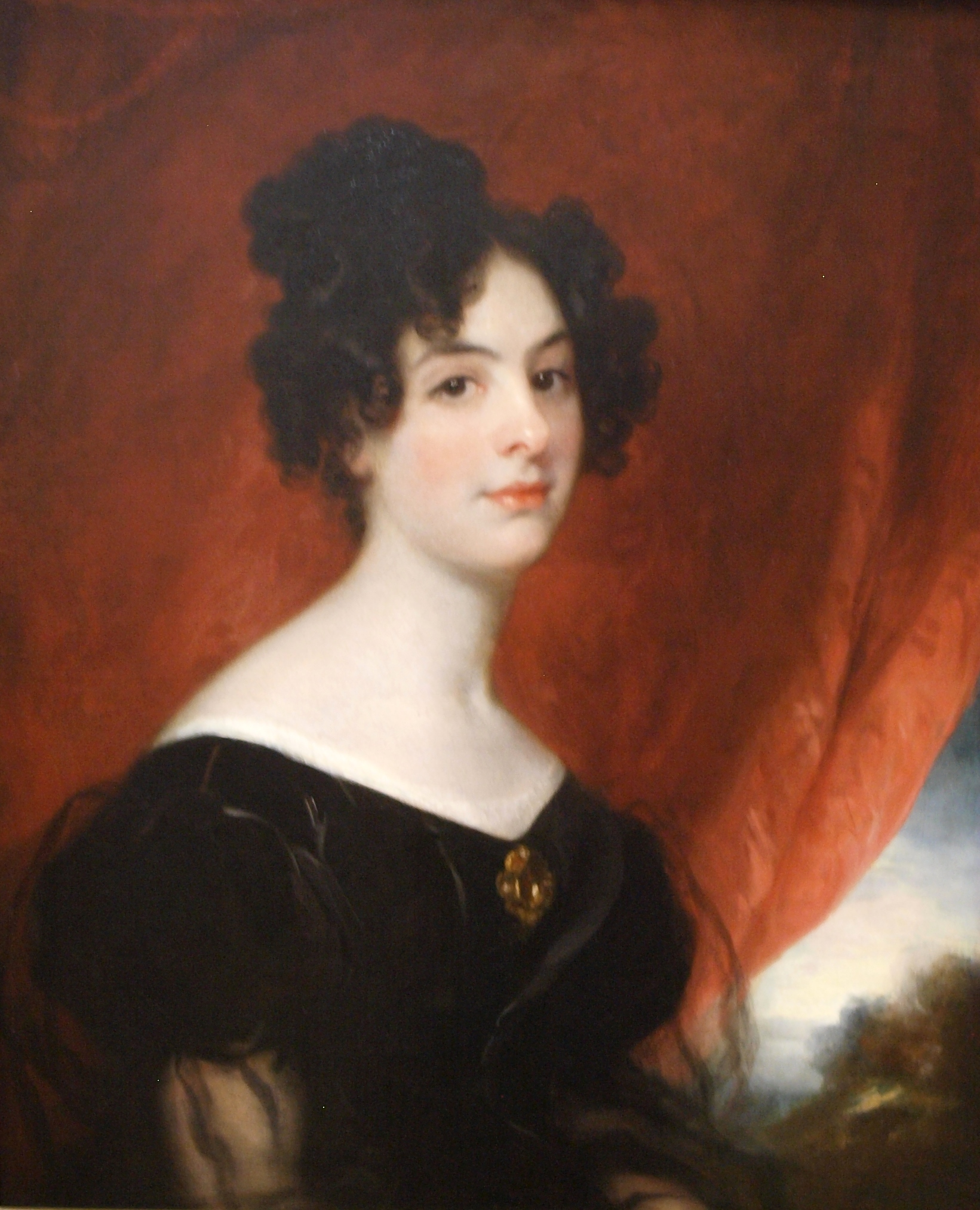 Ellen Stirling (1807 - 1874), governor's spouse.